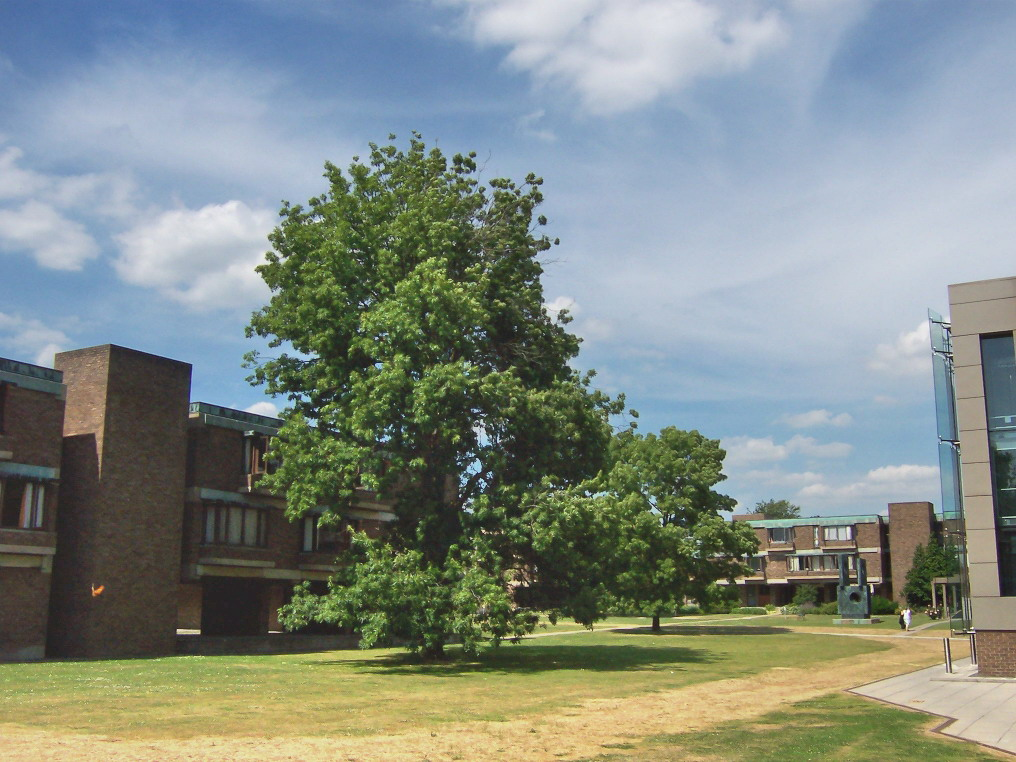 Part of Churchill College, Cambridge.